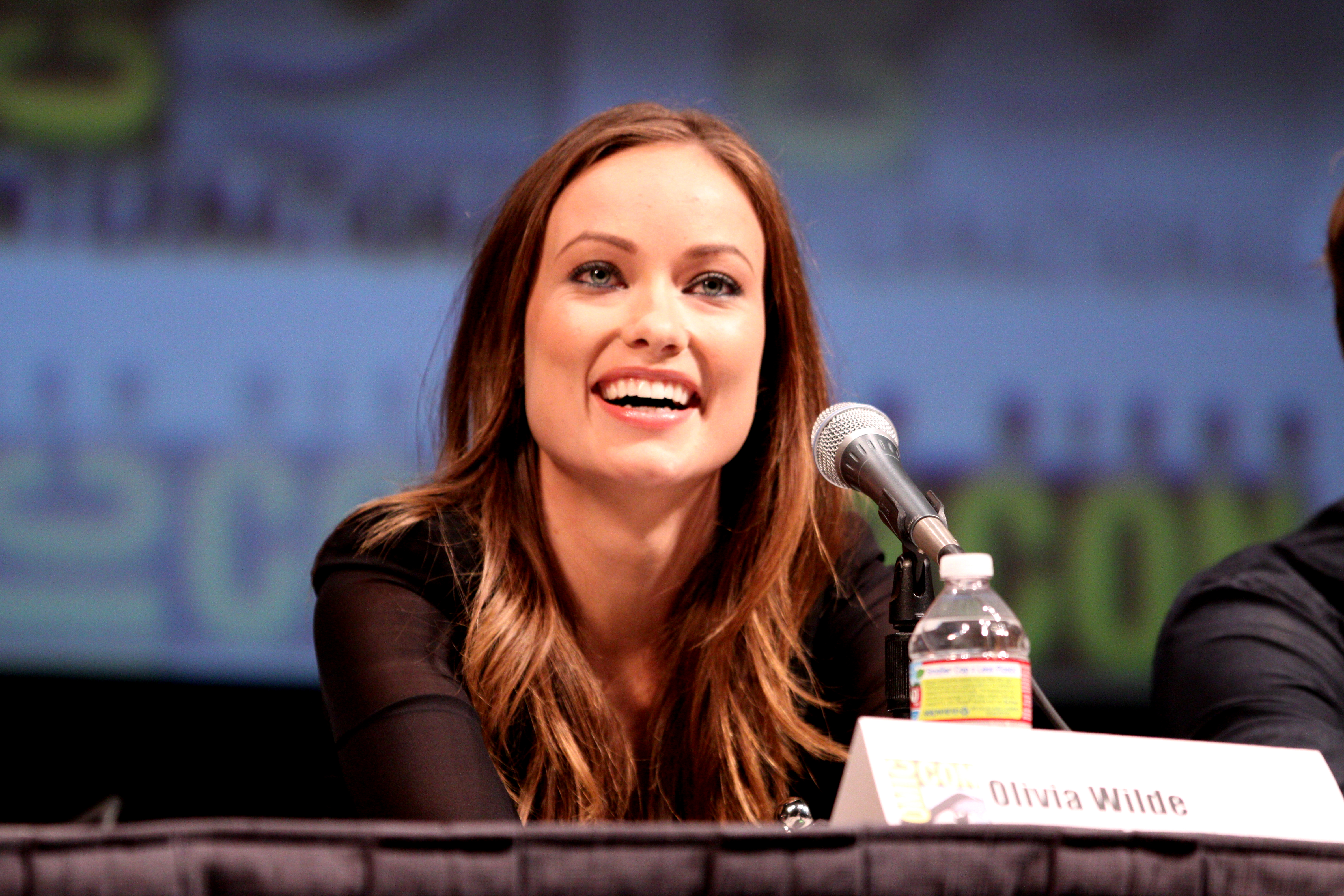 Actress Olivia Wilde on the Tron: Legacy panel at the 2010 San Diego Comic Con in San Diego, California.